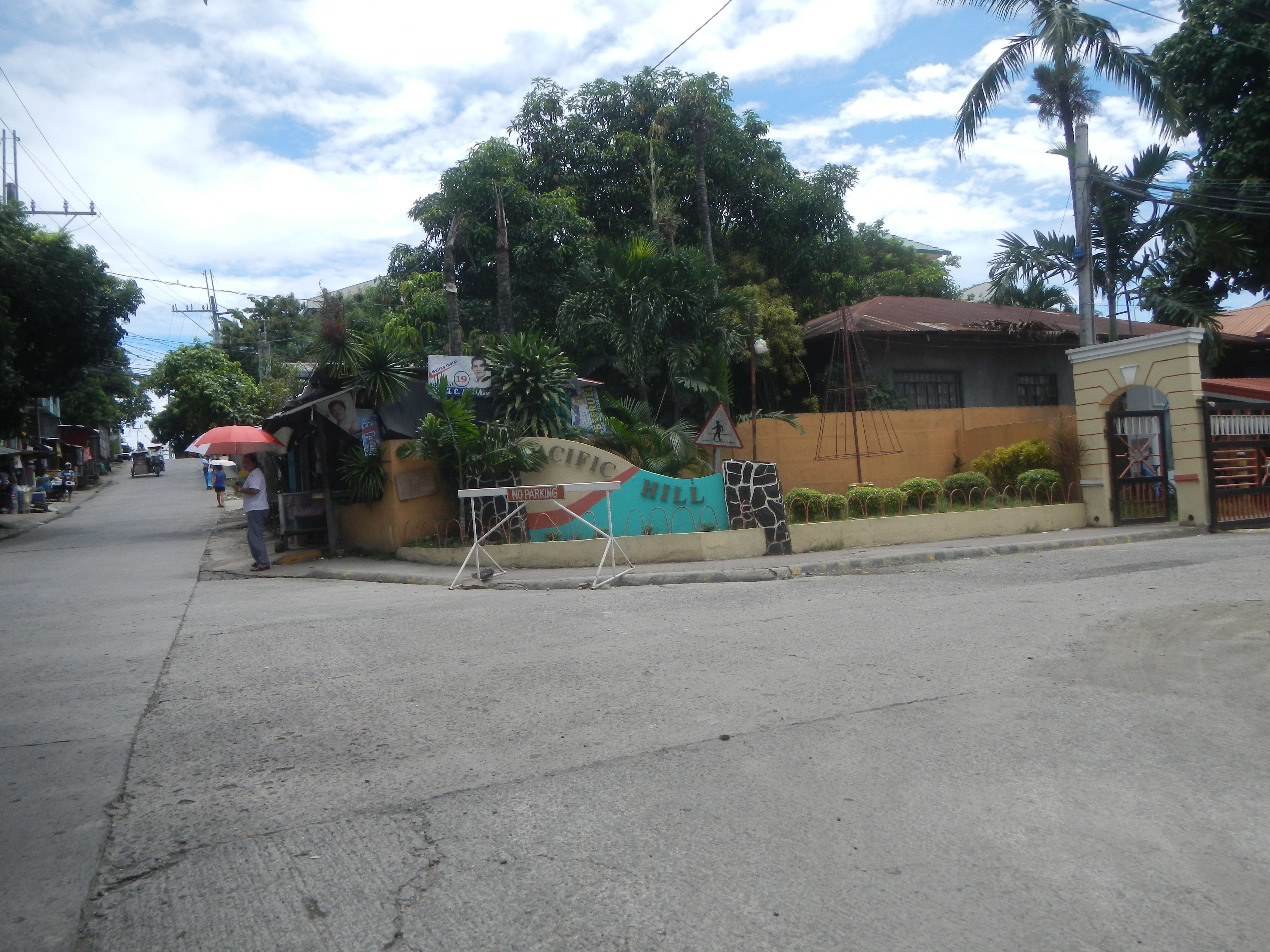 Sitios List of barangays in Laguna (province) Category:Barangays of Calamba, Laguna Barangays Laguerta, Calamba City 14.1772, 121.0984 Palo-Alto Silangan 14.1912, 121.1134 Majada Labas, Calamba City 14.1973, 121.1048 Calamba, Laguna accessed from Mayapa–Canlubang Cadre Road South Luzon Expressway to National Highway (Calamba Poblacion-Mayapa) of Maharlika Highway (Calamba City section) Pan-Philippine Highway N1 of the nation's Philippine highway network (Note: Judge Florentino Floro, the owner, to repeat, Donor Florentino Floro of all these photos hereby donate gratuitously, freely and unconditionally Judge Floro all these photos to and for Wikimedia Commons, exclusively, for public use of the public domain, and again without any condition whatsoever).